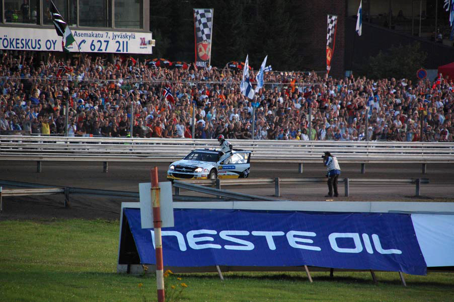 Petter Solberg - 2009 Rally Finland. More pictures on my website